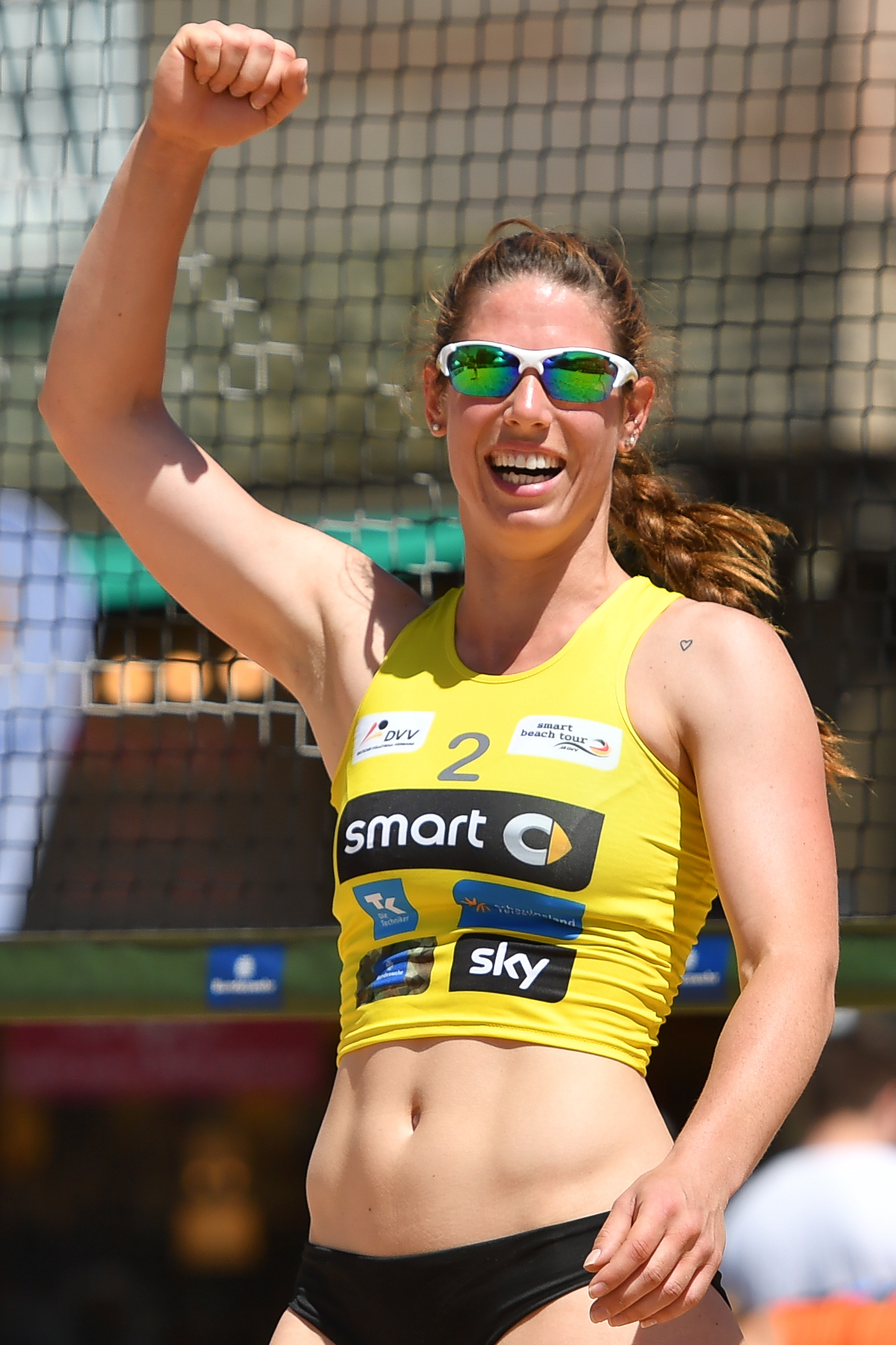 26/5/2017, Nuremberg, Germany, Sports, beach volleyball, smart beach cup Nuernberg - Qualification.